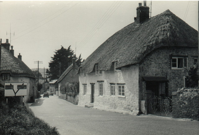 West Lulworth c.1960 The road sign indicates left to Lulworth Cove and right for Durdle Door Camp.